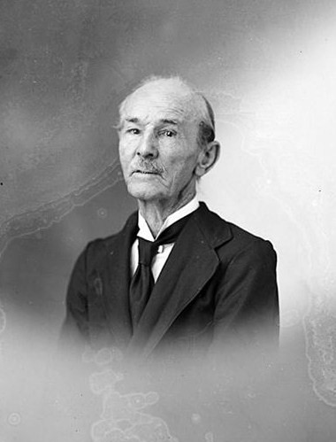 Portrait of Thomas Andrew (19 January, 1855 - 07 August, 1939), New Zealand photographer who lived in Samoa for most of his life from 1891-1939. Gagana Samoa: Le palagi o Thomas Andrew (1855 - 1939), le tagata pu'e ata i Samoa. Na nofo Thomas Andrew i Samoa mai le tausaga e 1891 i le tausaga e 1939.